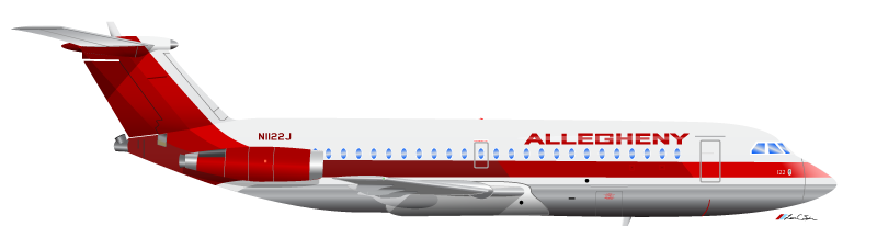 An Allegheny Airlines BAC-111 in the last livery of the airline shortly before becoming USAir.